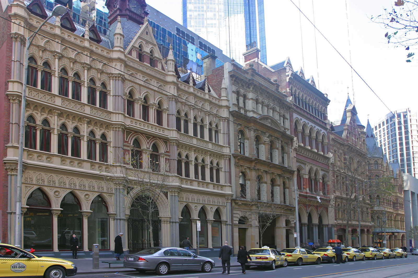 Collins Street architecture at the bottom end of Collins street, near Rialto Towers. Taken with a Canon 10D and 16-35mm f/2.8L lens on the 4th of July, 2003.